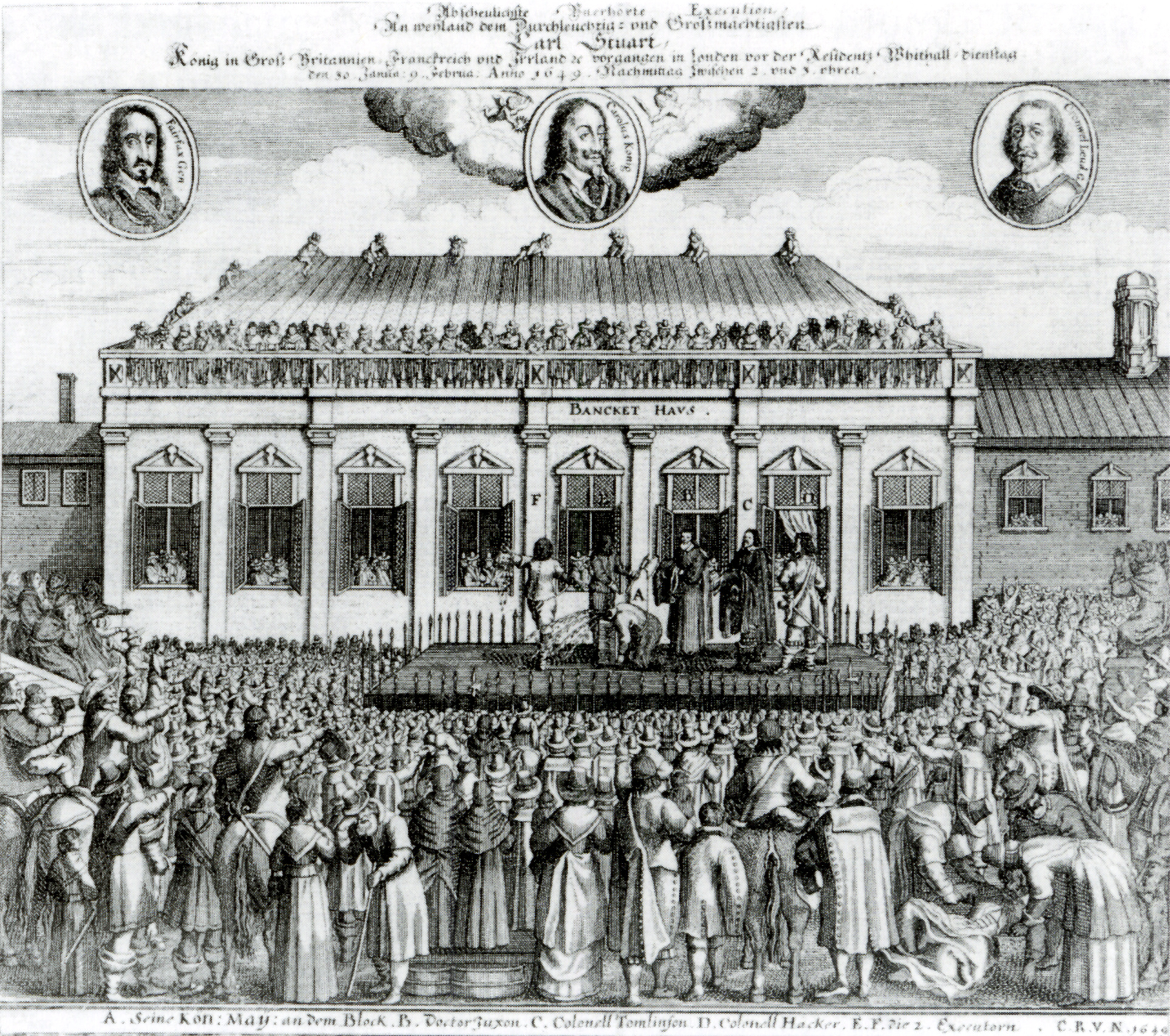 This image is a JPEG version of the original PNG image at File: The Execution of Charles I.png. Generally, this JPEG version should be used when displaying the file from Commons, in order to reduce the file size of thumbnail images. However, any edits to the image should be based on the original PNG version in order to prevent generation loss, and both versions should be updated. Do not make edits based on this version. See here for more information. The Execution of Charles I. Etching by "C.R.V.N.", 1649. 29.2 x 26cm (11 1/2 x 10 1/4"). National Portrait Gallery (RN15997). National Portrait Gallery: NPG D1306 While Commons policy accepts the use of this media, one or more third parties have made copyright claims against Wikimedia Commons in relation to the work from which this is sourced or a purely mechanical reproduction thereof. This may be due to recognition of the "sweat of the brow" doctrine, allowing works to be eligible for protection through skill and labour, and not purely by originality as is the case in the United States (where this website is hosted). These claims may or may not be valid in all jurisdictions. As such, use of this image in the jurisdiction of the claimant or other countries may be regarded as copyright infringement. Please see Commons:When to use the PD-Art tag for more information.See User:Dcoetzee/NPG legal threat for original threat and National Portrait Gallery and Wikimedia Foundation copyright dispute for more information. This tag does not indicate the copyright status of the attached work. A normal copyright tag is still required. See Commons:Licensing.